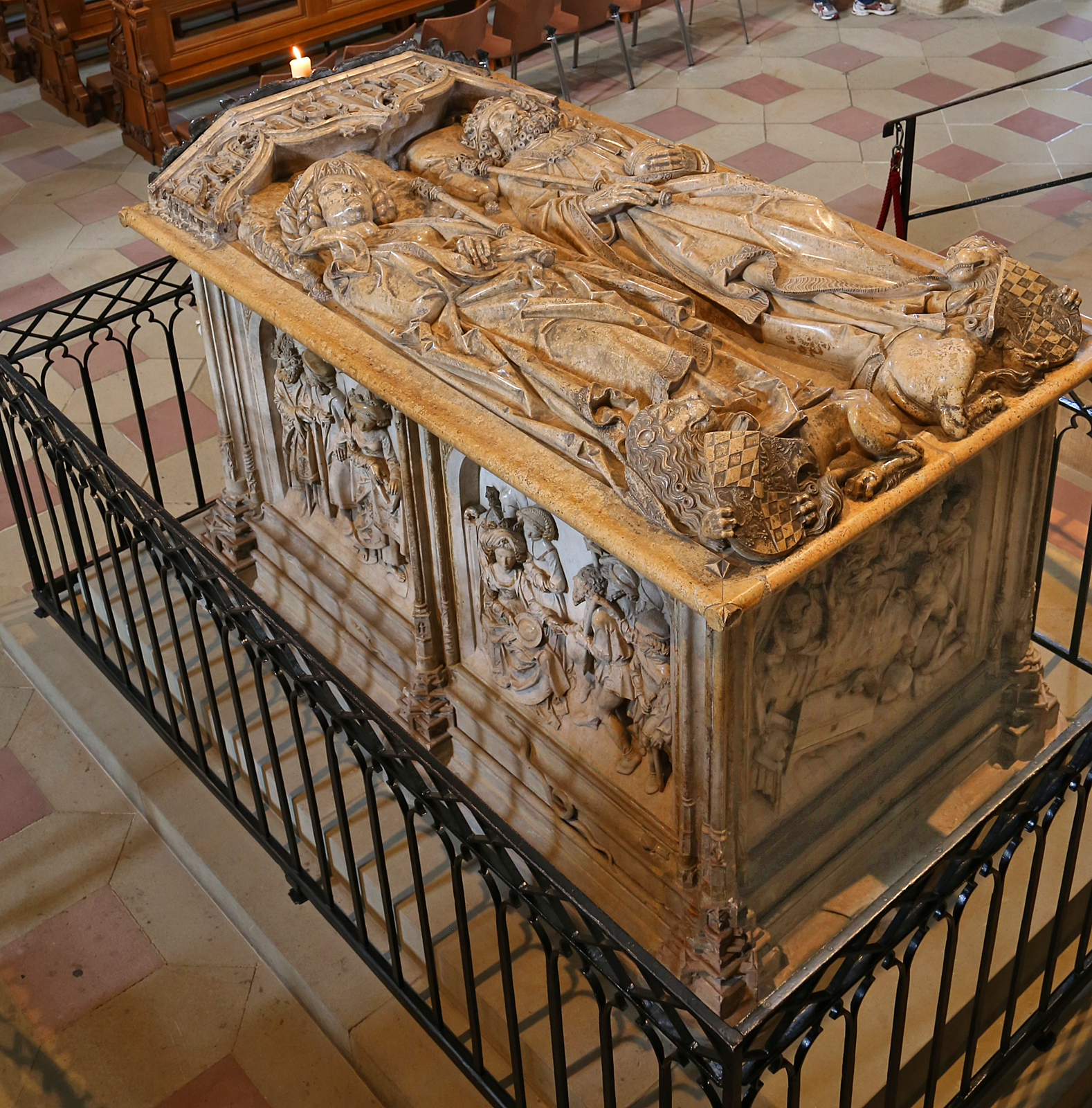 Tomb of Emperor Heinrich II. and his wife in the Bamberg Cathedral.